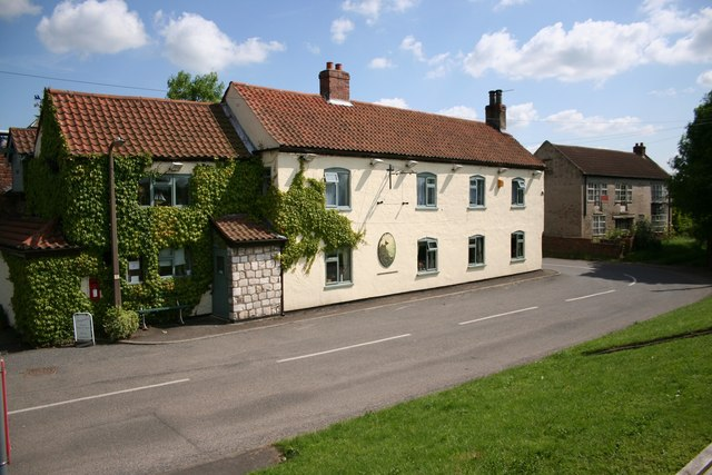 The celebrated Jenny Wren Inn Fine food, beers & wines and accommodation at the famous Jenny Wren Inn